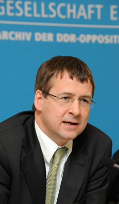 David Gill (civil servant) 2010